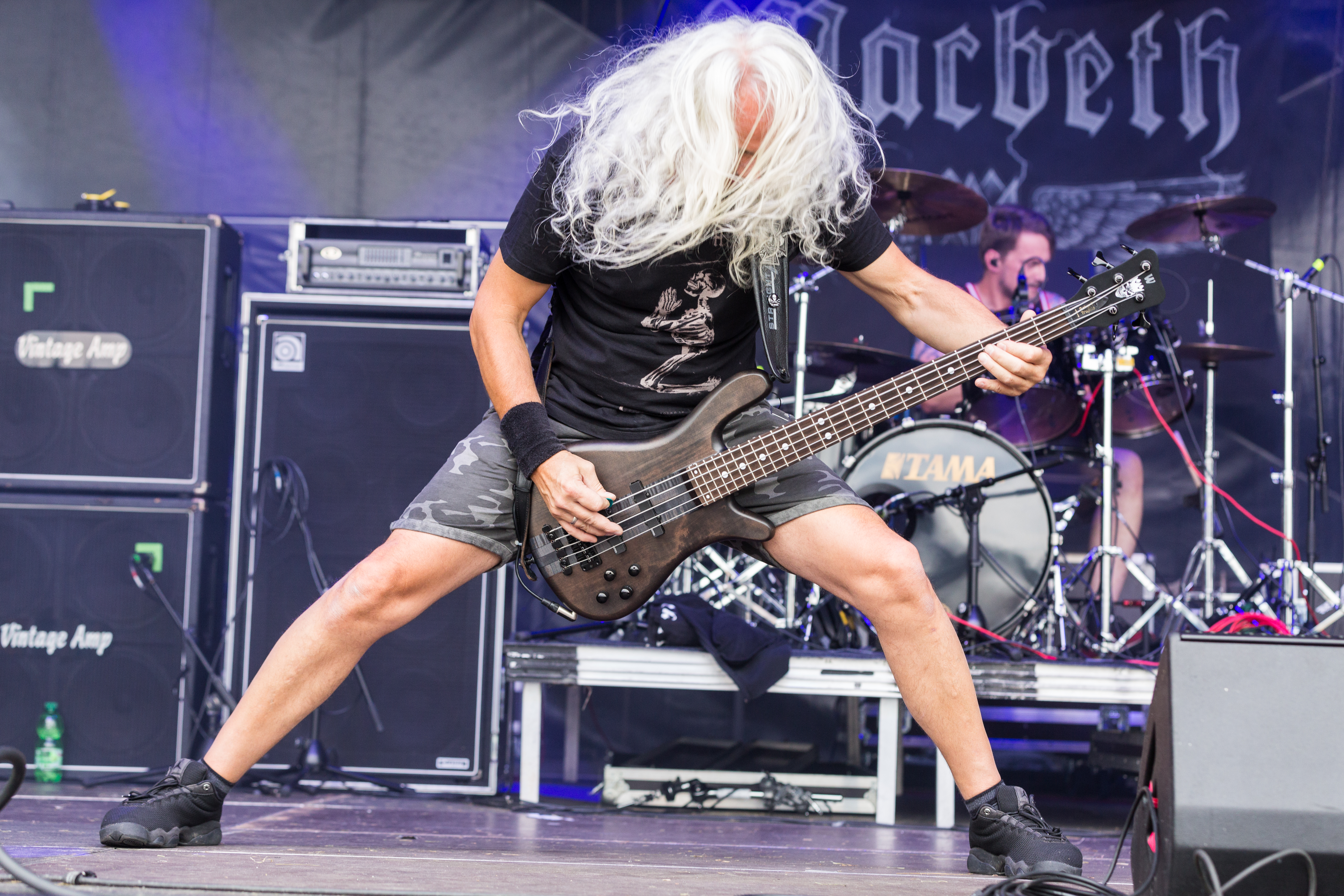 The German heavy metal band Macbeth at the Metal Frenzy 2017 in Gardelegen/Germany.